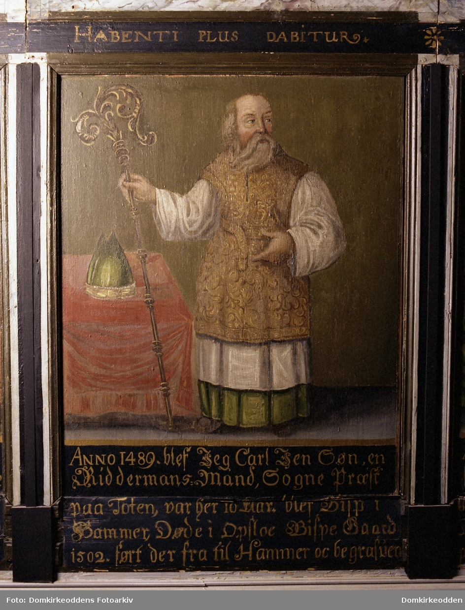 Norwegian catholic bishop of the Hamar diocese, Karl Jensson (1460–1512), photograph of a painting on permanent exhibit in Hoff Kirke, Toten (Norway). The writing below says: "Anno 1489 blef Jeg Carl Jens Søn, er Riddermands Mand, Sogne Præst paa Toten, var her 10 Aar. Blef Bisp i Hammer. Døde i Opsloe Bispe Gaard 1502. Ført der fra til Hammer og begraven", the writing above says "Habenti plus dabitur" (whoever has, shall give), some sort of motto? Karl attended Rostock university in 1486, then Greifswald the next year, his name being Carolus Johannis di Hammaria,[1]